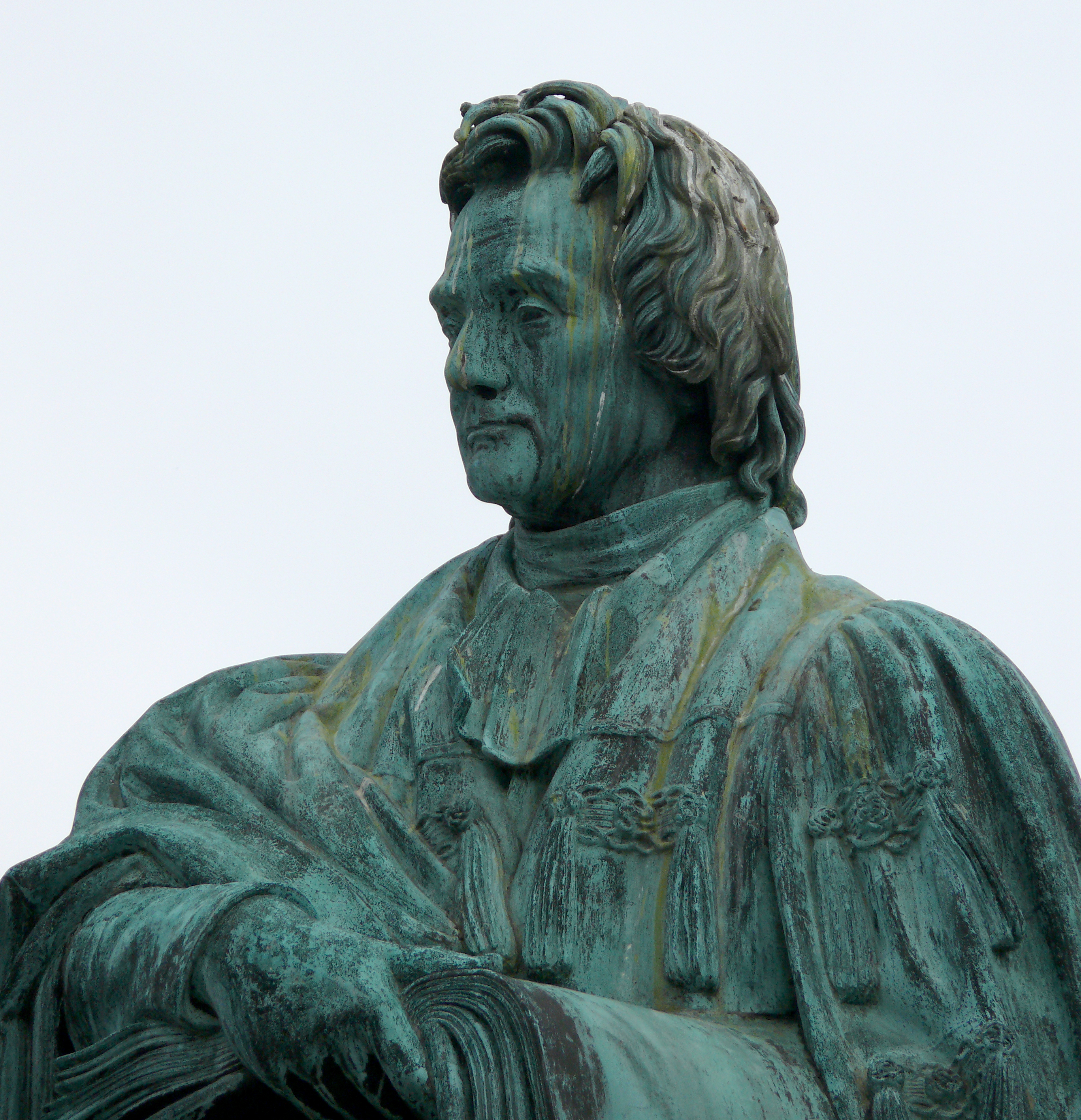 Statue of Thomas Chalmers at the intersection of George Street and Castle Street, Edinburgh.